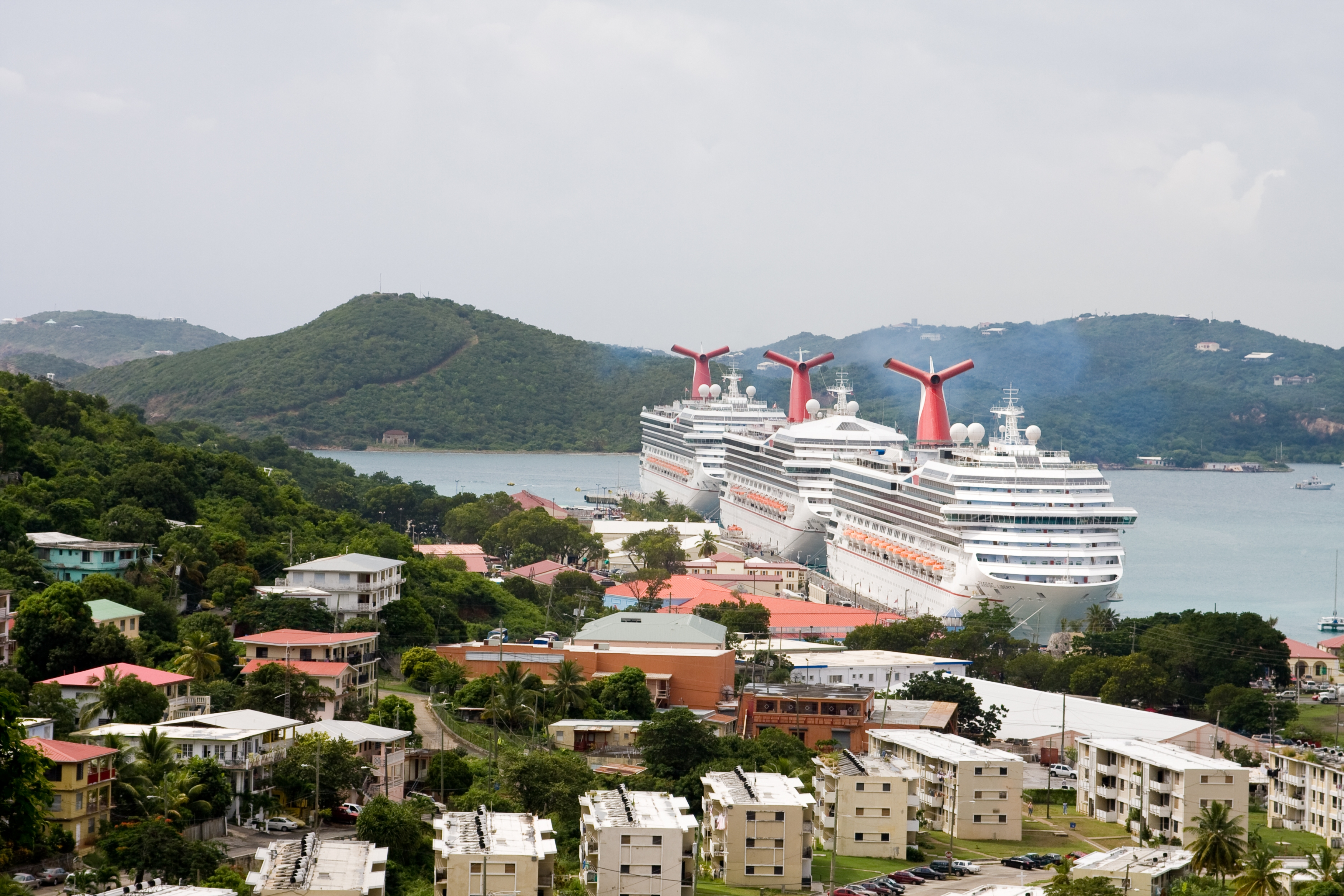 Carnival Liberty, Carnival Triumph and Carnival Glory (near to far) docked in St. Thomas, US Virgin Islands